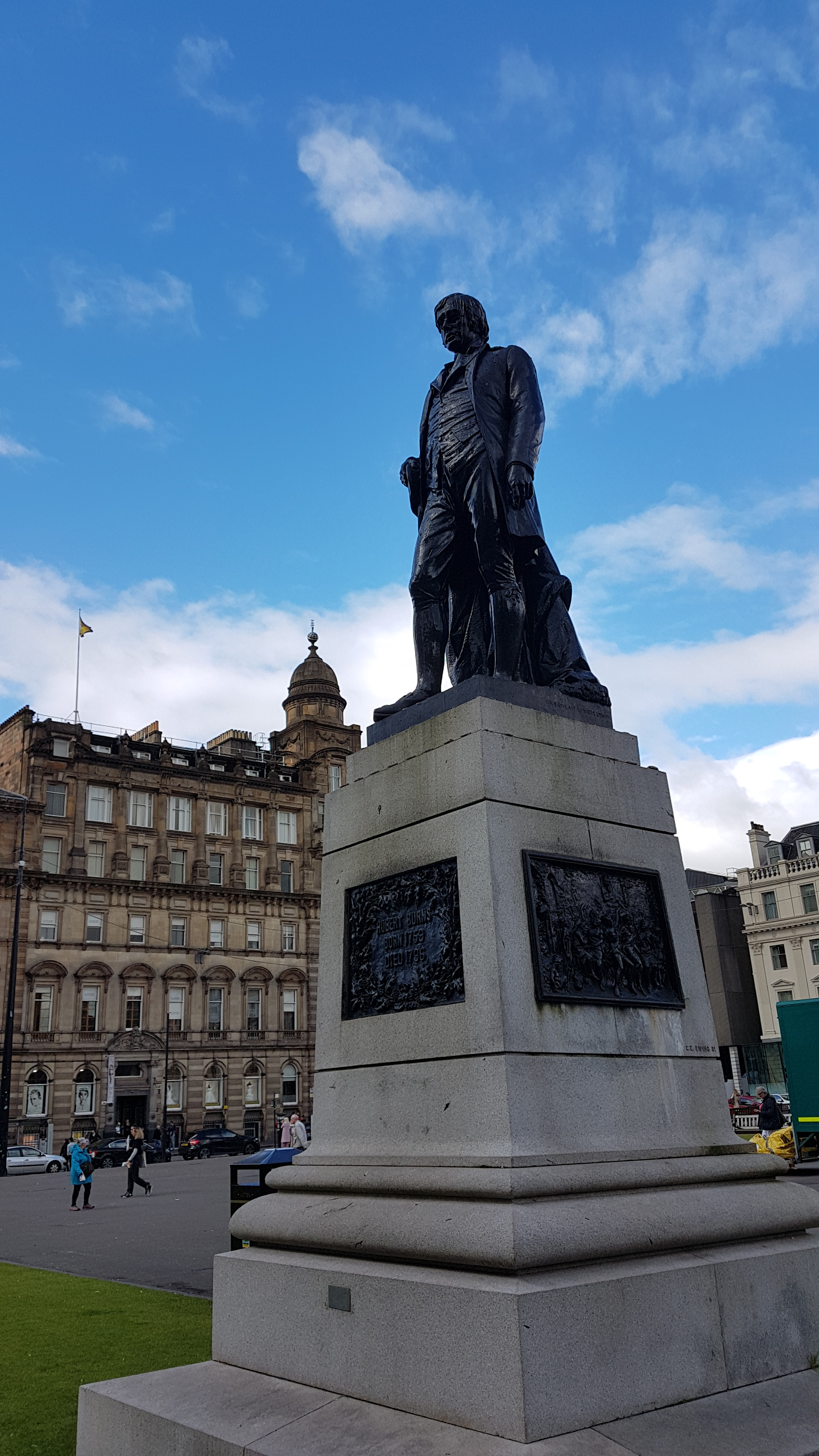 George Square, Statue Of Robert Burns Wikidata has entry Q17792930 with data related to this item.